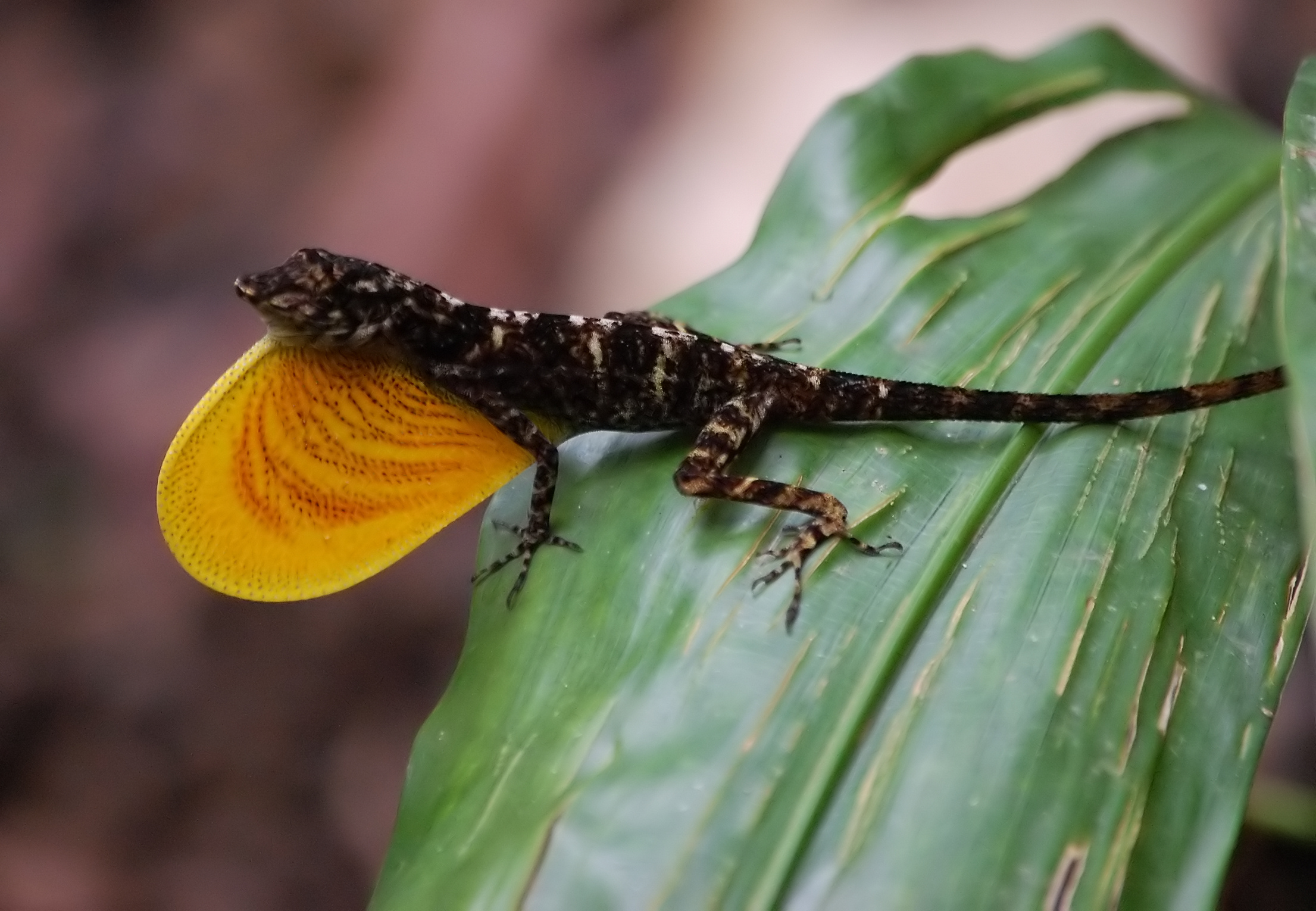 Many-scaled anole (Anolis polylepis, also called Norops polylepis) bobbing its head and displaying its large yellow dewlap, in the Osa Peninsula, Costa Rica.